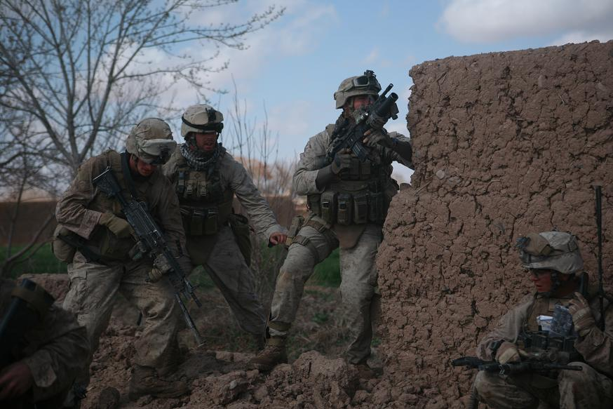 U.S. Marines with Bravo Company, 1st Battalion, 6th Marine Regiment return fire on enemy forces in Marjeh, Afghanistan on Feb. 22, 2010. Marines are securing the city of Marjeh from the Taliban. (Official U.S. Marine Corps photo by Lance Cpl Andres J. Lugo)